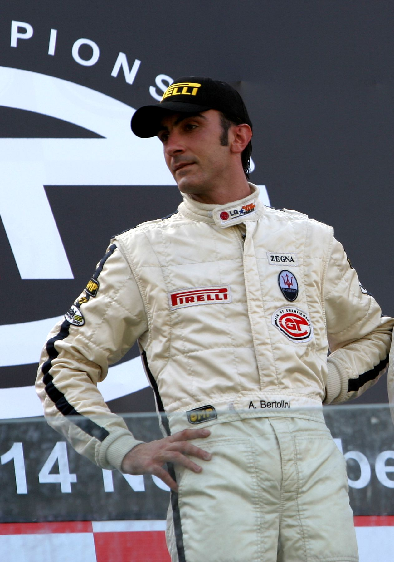 Andrea Bertolini at Zhuhai International Circuit's podium in 2004, after winning the FIA GT Championship race.